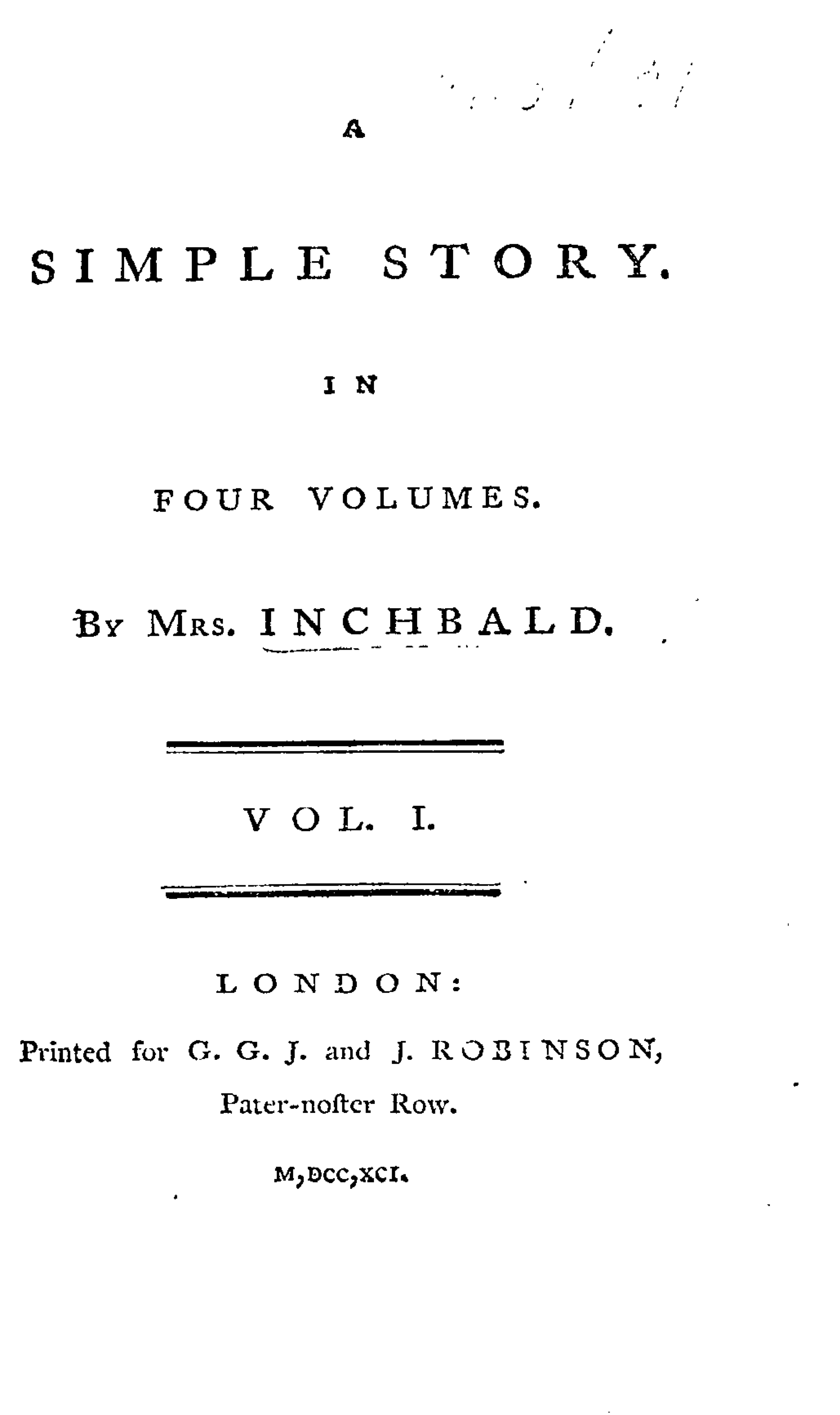 A simple story. In four volumes. By Mrs. Inchbald. Vol. I. London: Printed for G.G.J. and J. Robinson, Pater-noster Row. M,DCC,XCI. [1791]